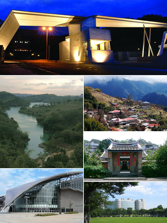 Montage of various Hsinchu County images.